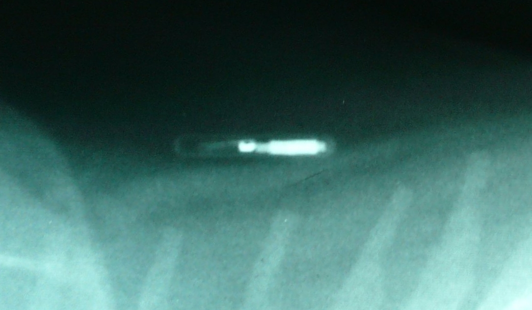 Radiograph of a cat with an identifying microchip located above the spine.